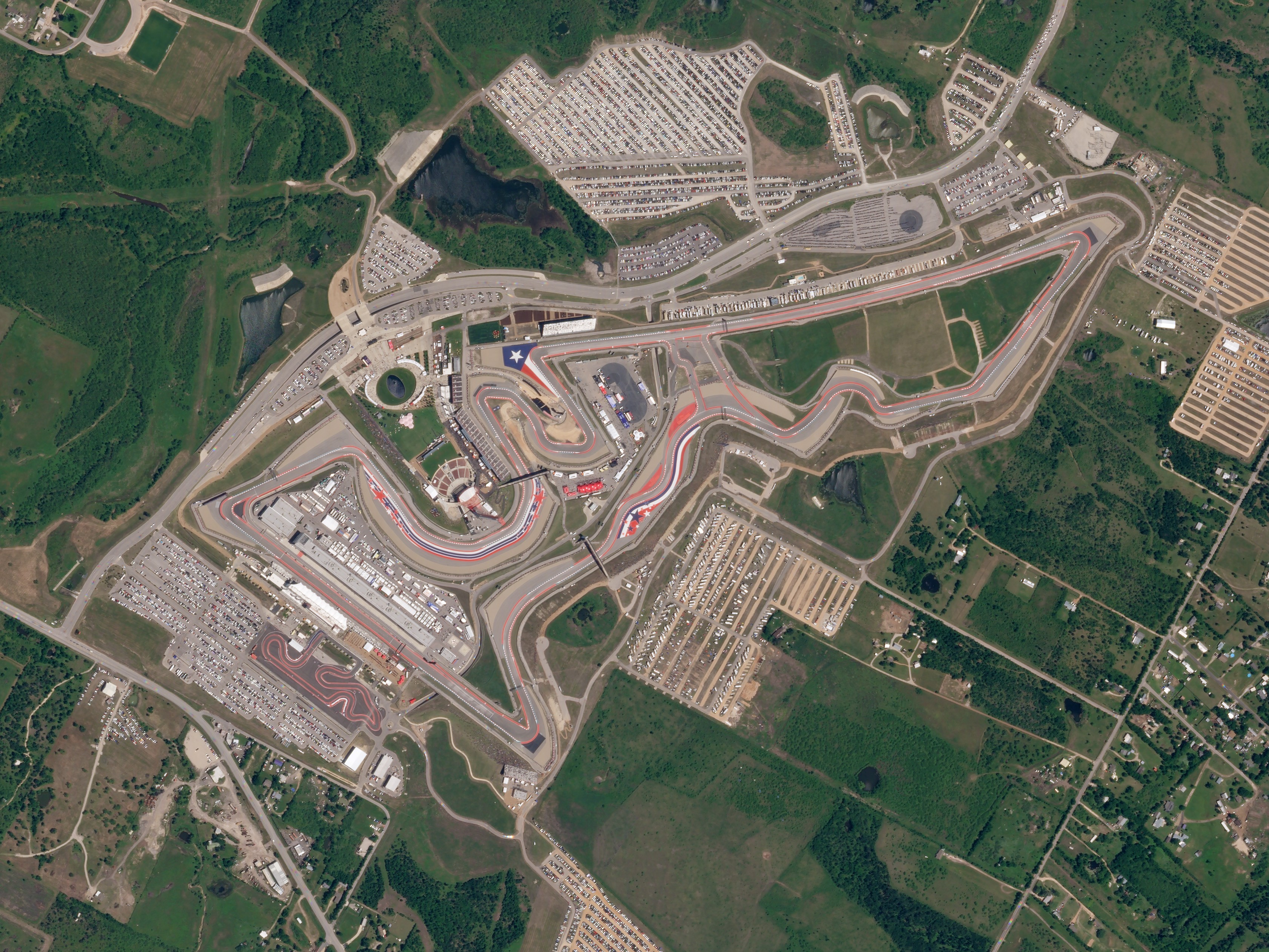 Circuit of the Americas, a grade 1 FIA-specification 3.427-mile (5.515 km) motor racing track located within the ETJ of Austin and home to the Formula One United States Grand Prix and the IndyCar Classic. Image taken on April 22, 2018, during the Motorcycle Grand Prix of the Americas, by a Planet Labs SkySat satellite.